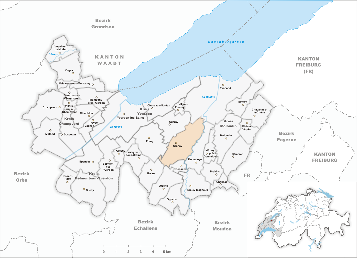 Municipality Cronay